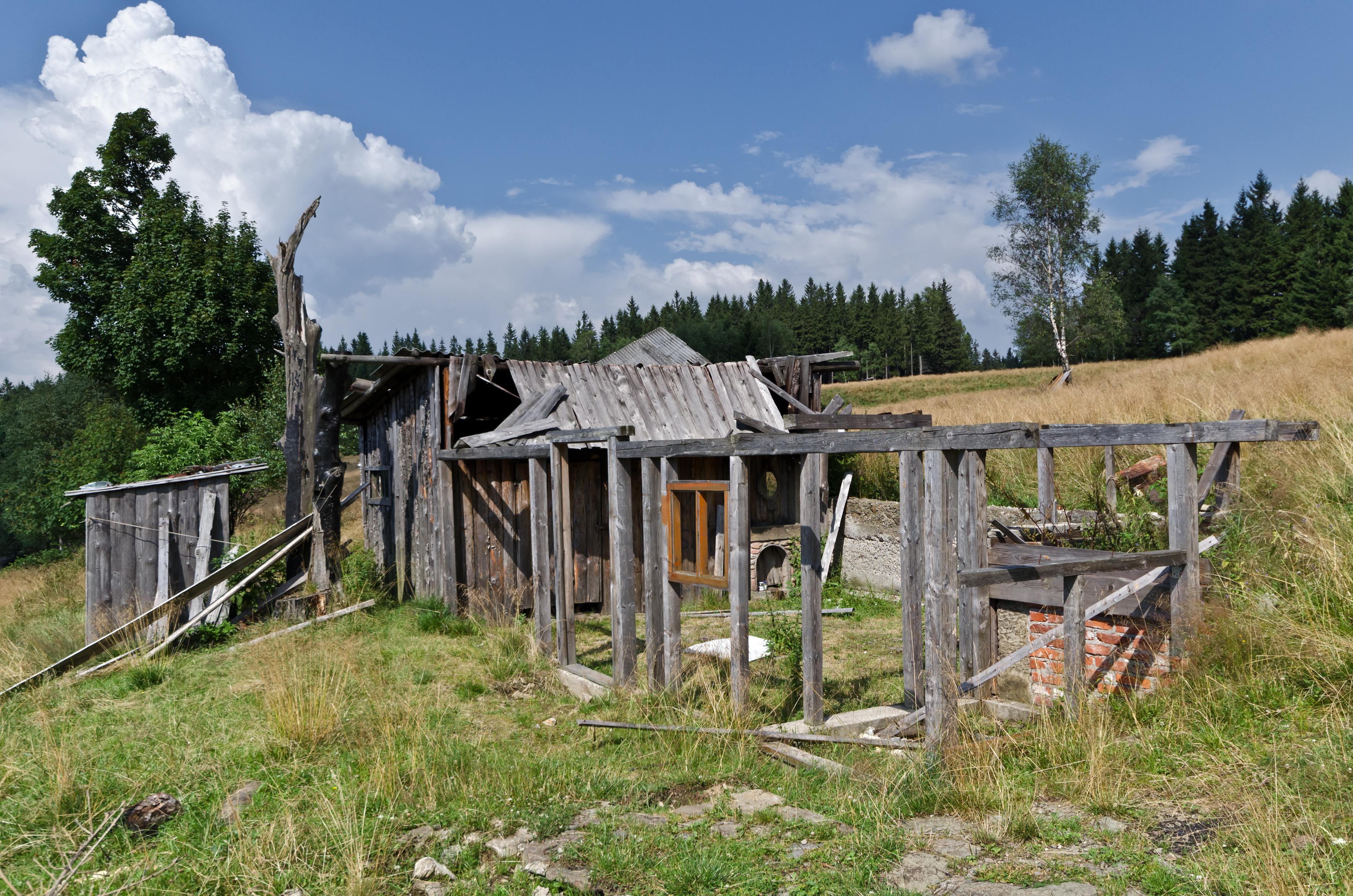 Ruined shepherd's hut on the Puchaczówka Pass